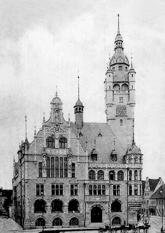 Dessau, the town hall in 1902